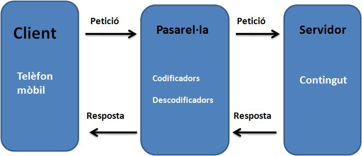 Diagram